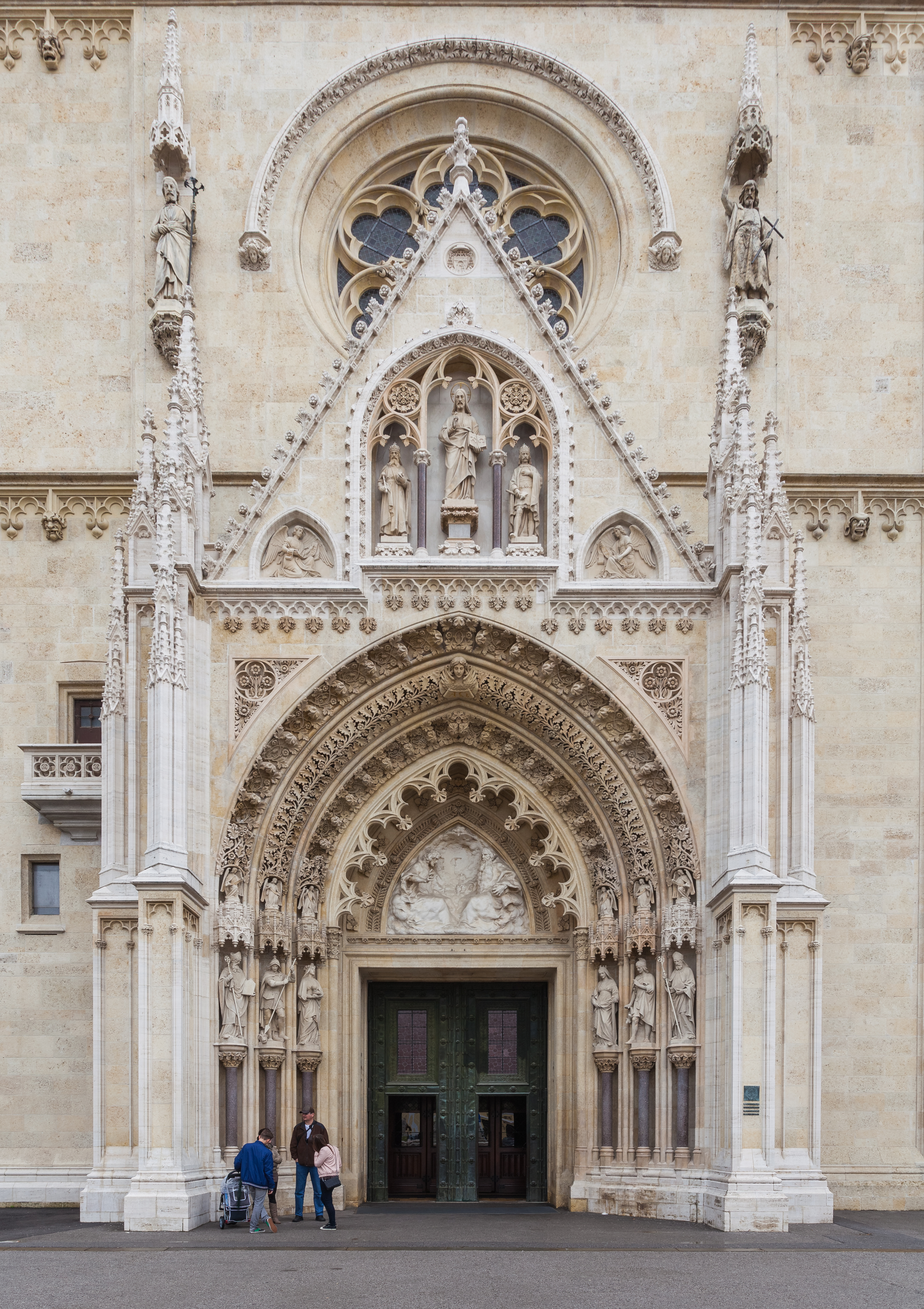 Zagreb Cathedral, Croatia